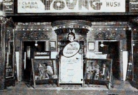 The Alamo Theater No. 2 in Atlanta, Georgia, showing the American drama film Hush (1921) with Clara Kimball Young, on page 47 of the April 2, 1921 Exhibitors Herald.